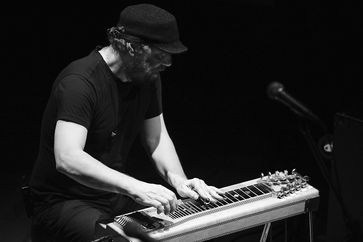 Daniel Lanois performing at the Stockey Centre in Parry Sound, Ontario, Canada on November 8, 2008. Photo by Andrew Hoshkiw.